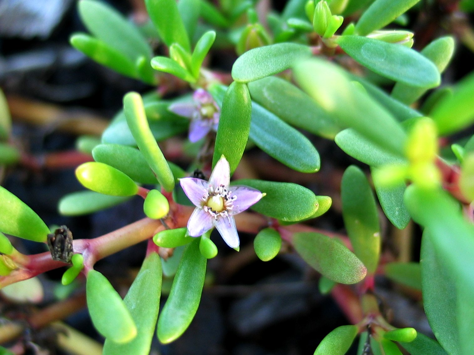 ʻĀkulikuli or Sea purslane Aizoaceae Indigenous to the Hawaiian Islands Oʻahu (Cultivated) All fleshy parts are said to be edible and can be eaten raw or cooked. The flavor has a slight salty taste and appears to hold this saltiness whether grown in a seaside environment or not. NPH00001